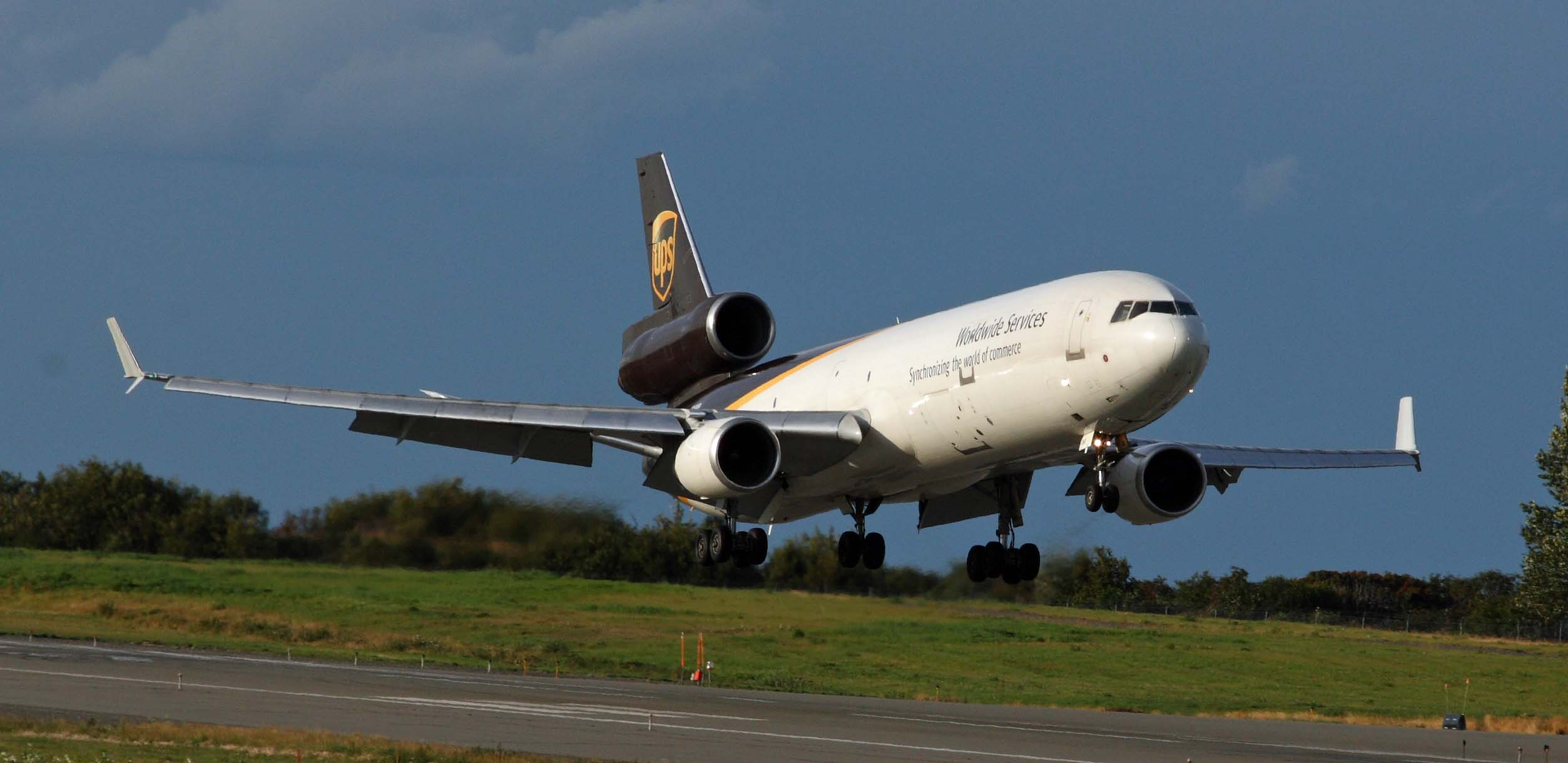 I took this photo on a quiet August 2011 day in Anchorage, Alaska after all my chores were done. What a nice way to relax between working on crossword puzzles and travel planning!